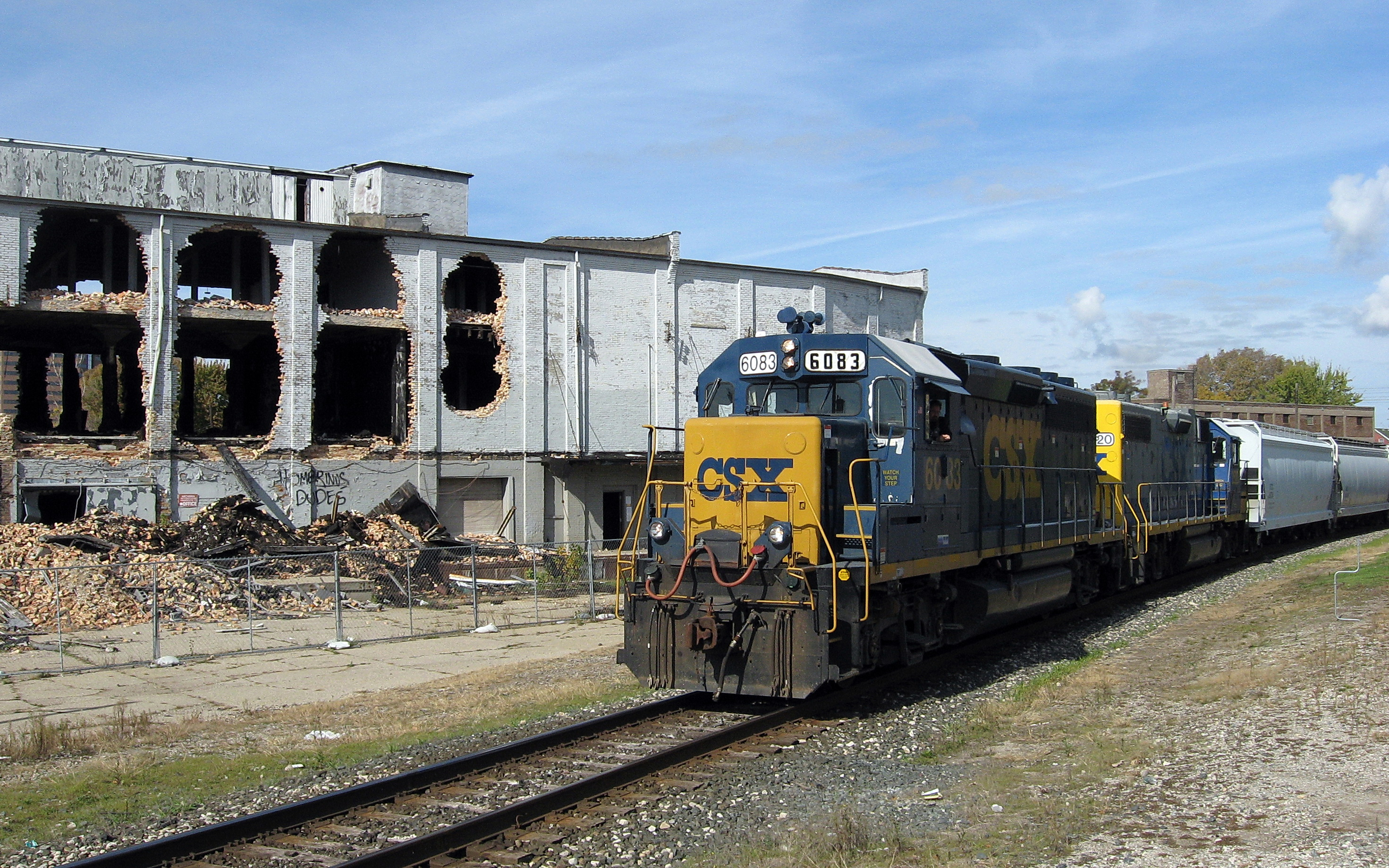 An eastbound freight headed by CSXT 6083 (a GP38-2S) passes the burned-out ruin of Michigan Storage & Refrigeration Co. in Lansing, MI on the Plymouth Subdivision.